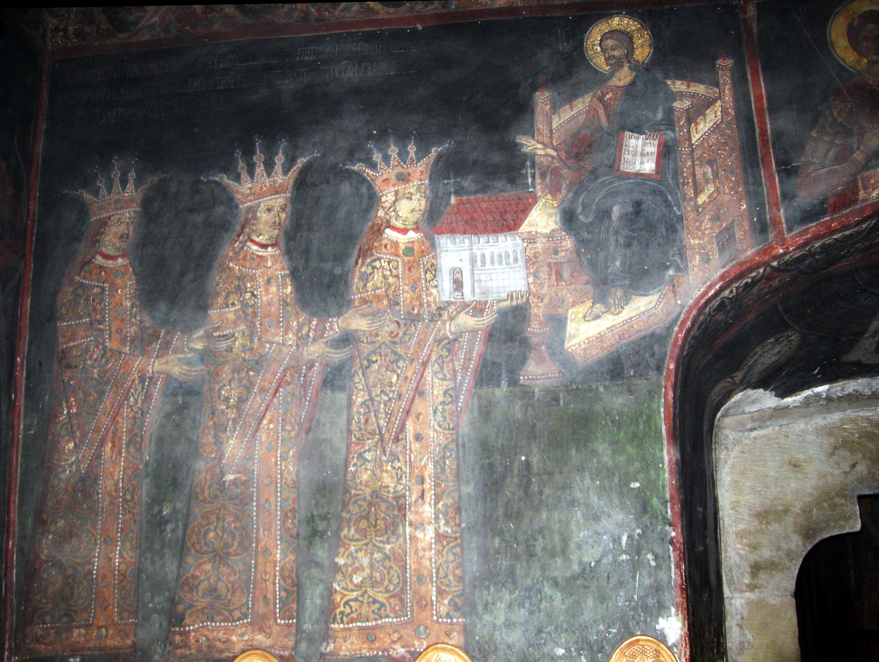 Mănăstirea Dobrovăţ